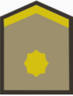 2nd Category Municipal Guard Insignia, Rio de Janeiro Municipal Guard